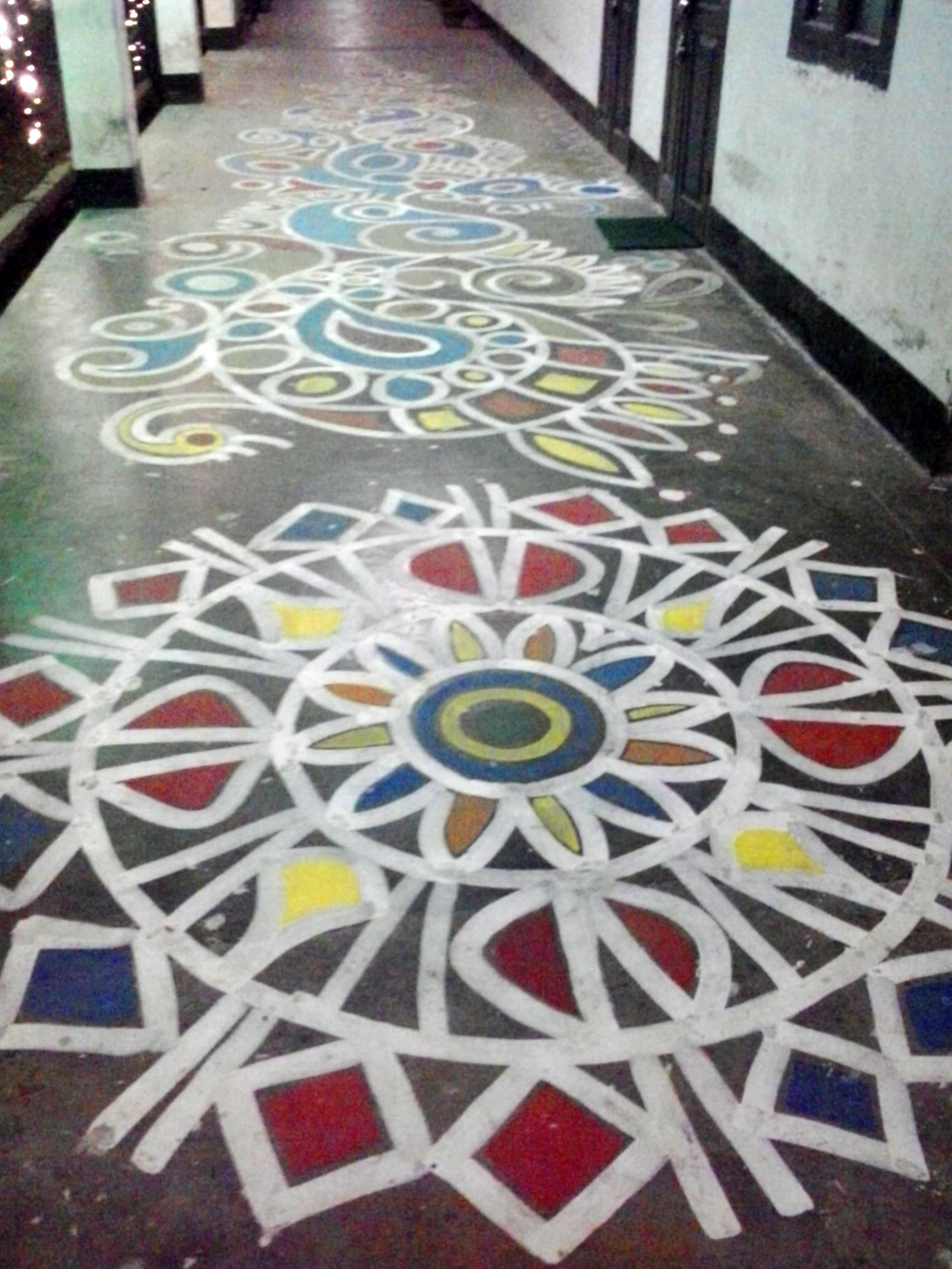 Alpana or alpona refers to colourful motifs, sacred art or painting done on a horizontal surface on auspicious occasions in Bengal like Puja, wedding or community events .